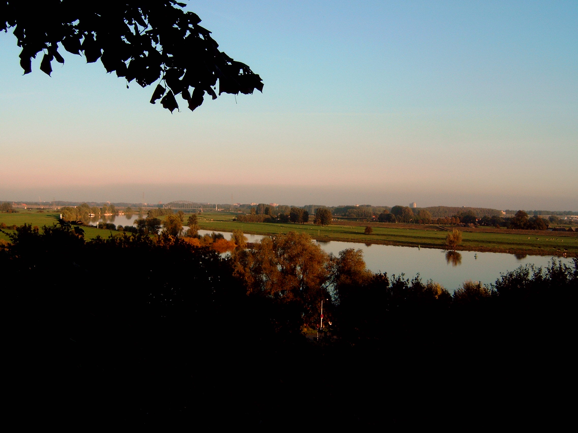 View from Westerbouwing, near the village of Renkum, in the Netherlands, east towards the city of Arnhem and the bridge on the river Rijn (Rhine)